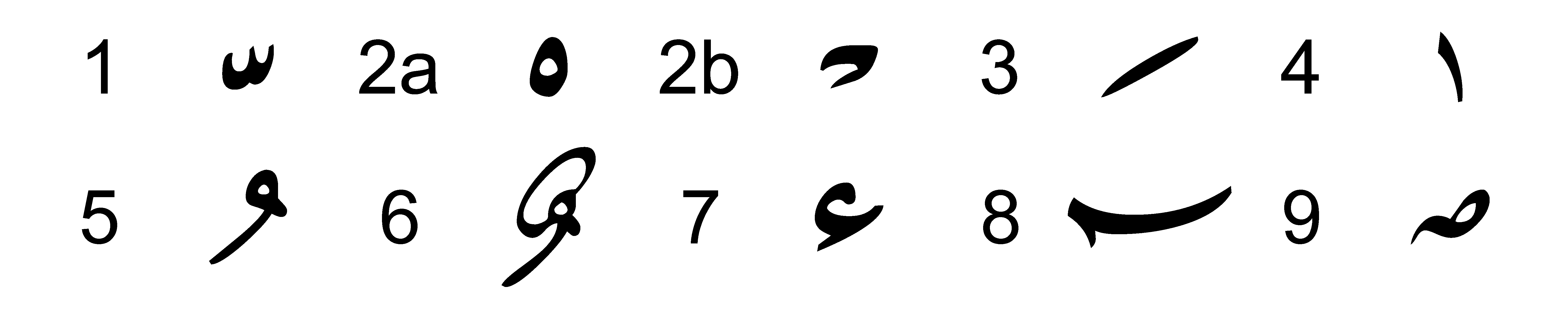 Diacritics (vowel signs etc.) of Arabic script